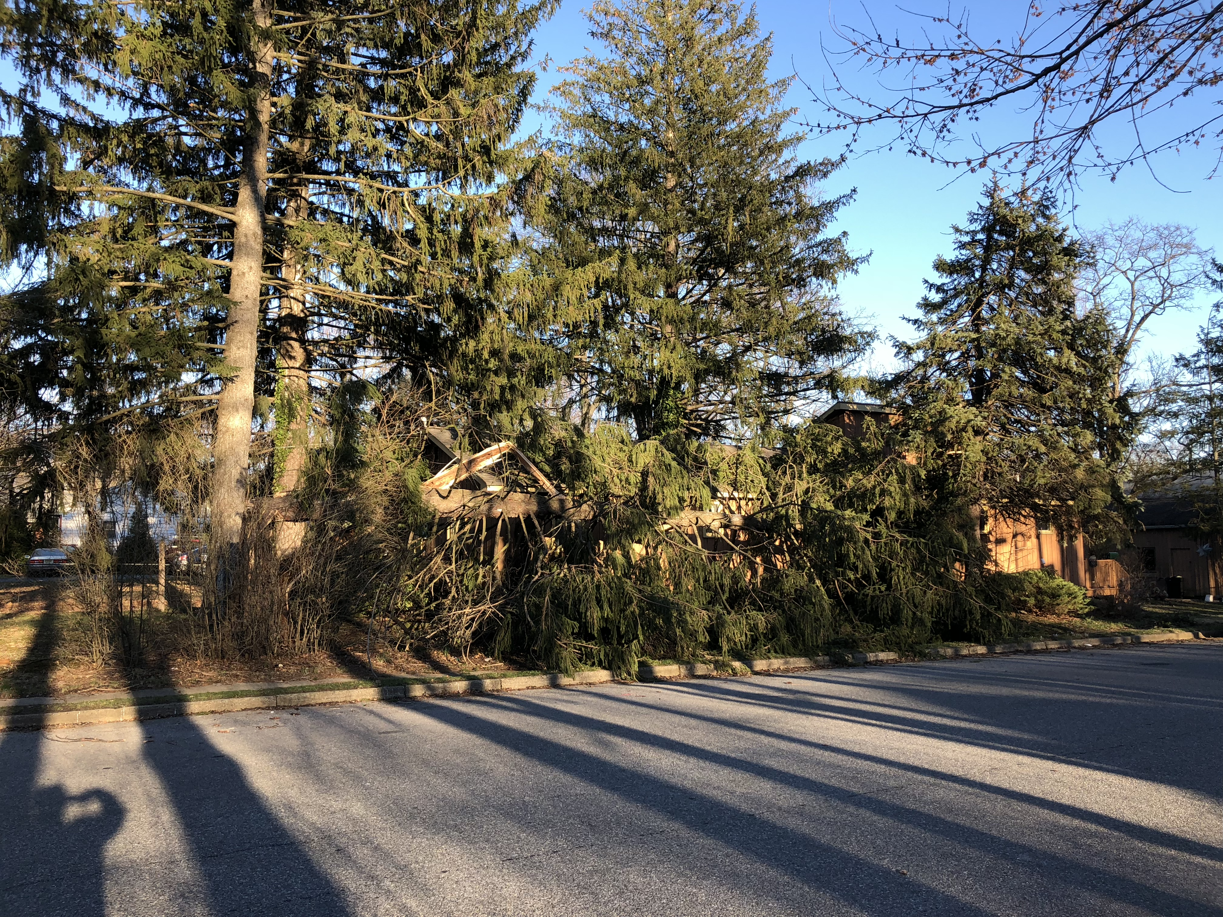 A Norway Spruce blown down during a nor'easter along Western Avenue in Ewing Township, Mercer County, New Jersey